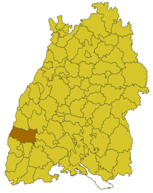 Map of Baden-Württemberg with the county of Emmendingen before 1973